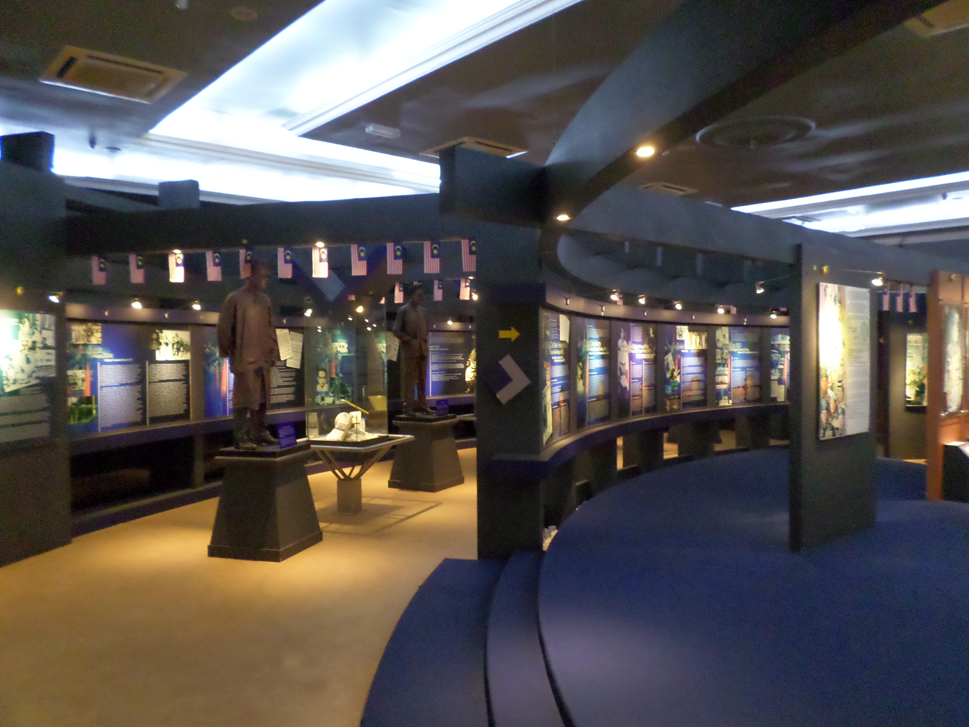 Democratic Government Museum, Malacca, MalaysiaBahasa Melayu: Muzium Pemerintahan Demokrasi, Melaka, Malaysia